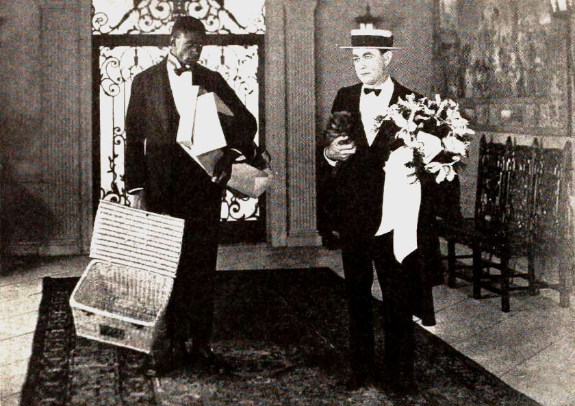 Still from the American comedy film The Poor Simp (1920) with Douglas Carter and Owen Moore, on page 60 of the September 11, 1920 Exhibitors Herald.